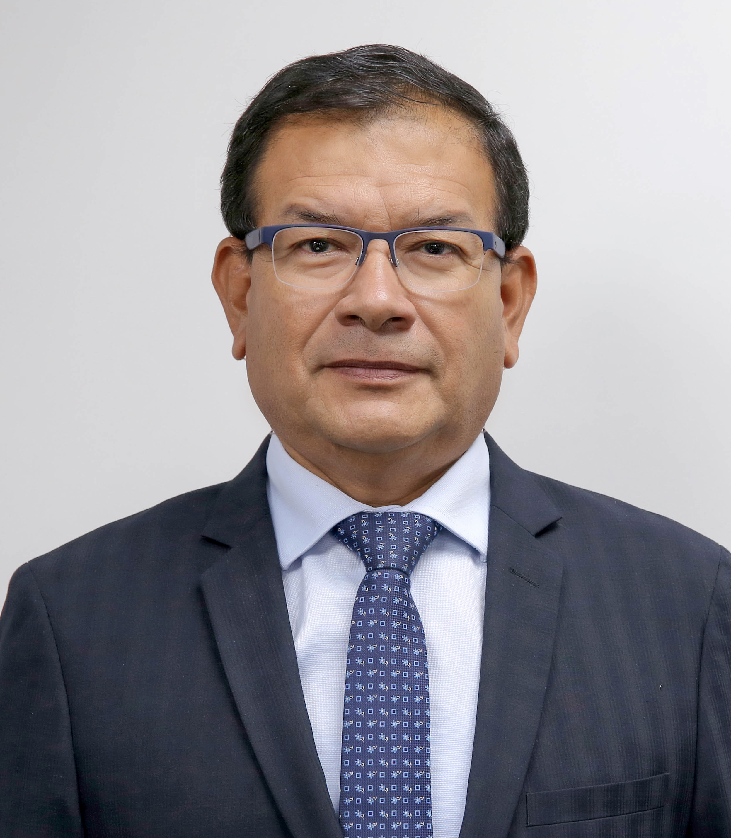 Peru minister of Agriculture